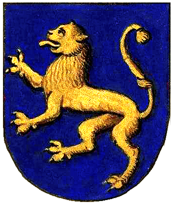 Coat of arms of Judah